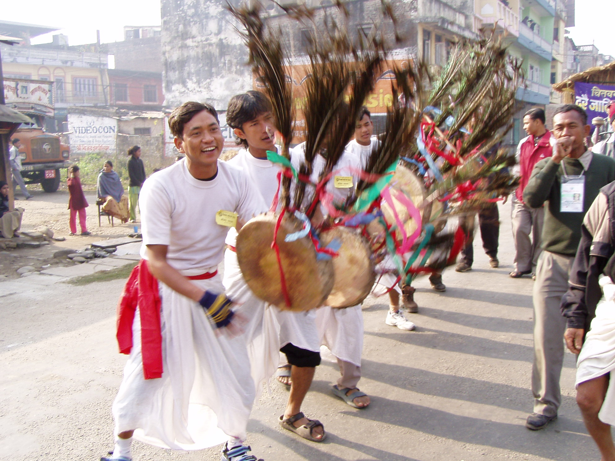 Musicians in Nepal with traditional instruments